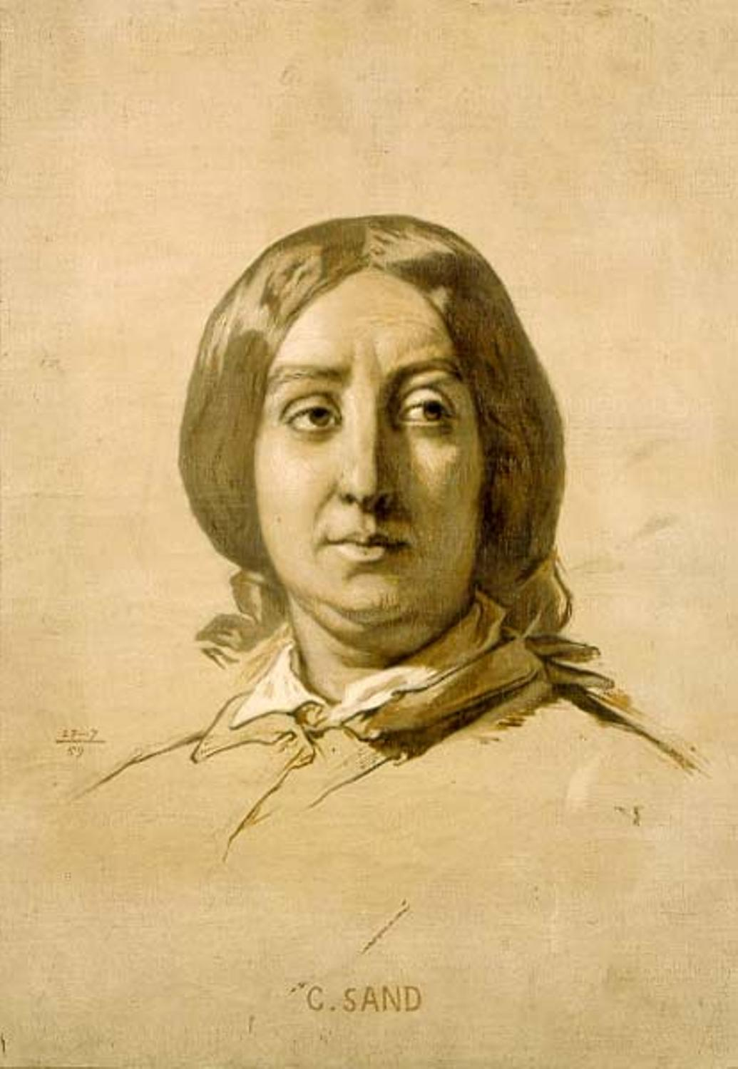 George Sand (1804–1876) Alternative names Amantine Aurore Lucile DupinDescriptionFrench writer, journalist, salonnière, playwright, novelist and composerDate of birth/death 1 July 1804 8 June 1876Location of birth/death Paris Nohant-VicAuthority control : Q3816 VIAF: 46766944 ISNI: 0000 0001 2130 9531 ULAN: 500054039 LCCN: n78081235 NLA: 35474179 WorldCat creator QS:P170,Q3816 Portrait et esquisse de l'écrivain français George Sand (1804-1876) par Thomas Couture.